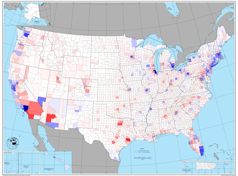 The winning margin, log (margin+avg county size) scaled, results by county for the 2000 United States of America Presidential election. The winning margin is the vote difference in the county between the winner and the loser. If Bush got 301 votes in a county, and Gore got 201, the margin is 100. It is then scaled using log (base e) when combined with the average population size. Without any log scaling only a few counties would be visible at all. The top five margins are Los Angeles, CA (1,598,375), Cook, IL (1,291,805), Harris, TX (525,679), Kings(Brooklyn), NY (445,196) and Philadelphia, PA (441,834).